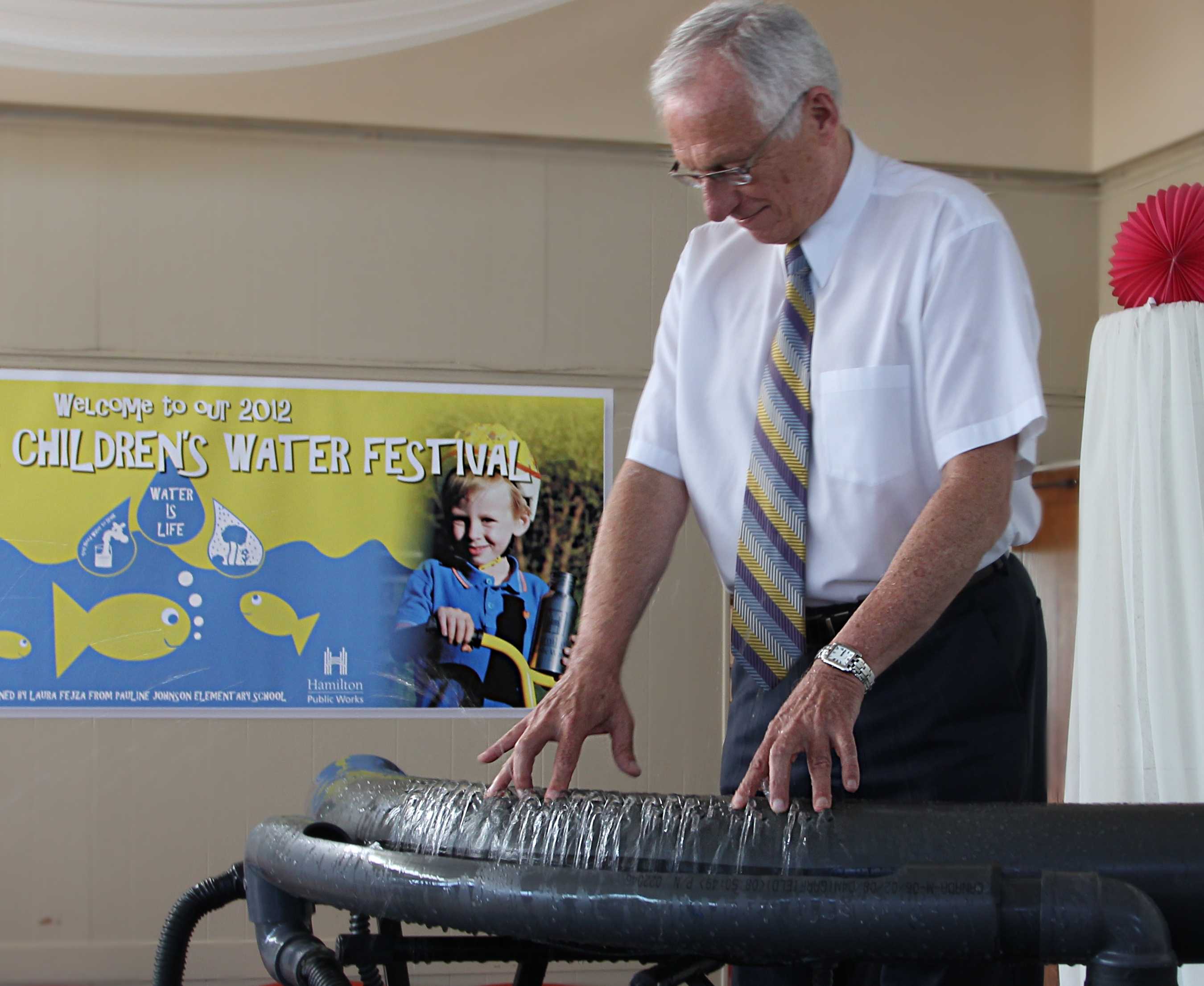 Hamilton Mayor Bob Bratina playing hydraulophone at the Hamilton Children's Water Festival, 2012may30th